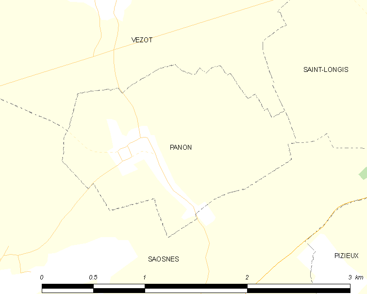 Map of French municipality